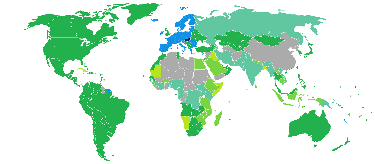 Visa requirements for Hungarian citizens Hungary Freedom of movement Visa not required Visa on arrival eVisa Visa available both on arrival or online Visa required prior to arrival